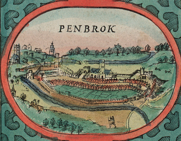 Insert from John Speeds County maps of Wales for first published in The Theatre of the Empire of Great Britain by George Humble